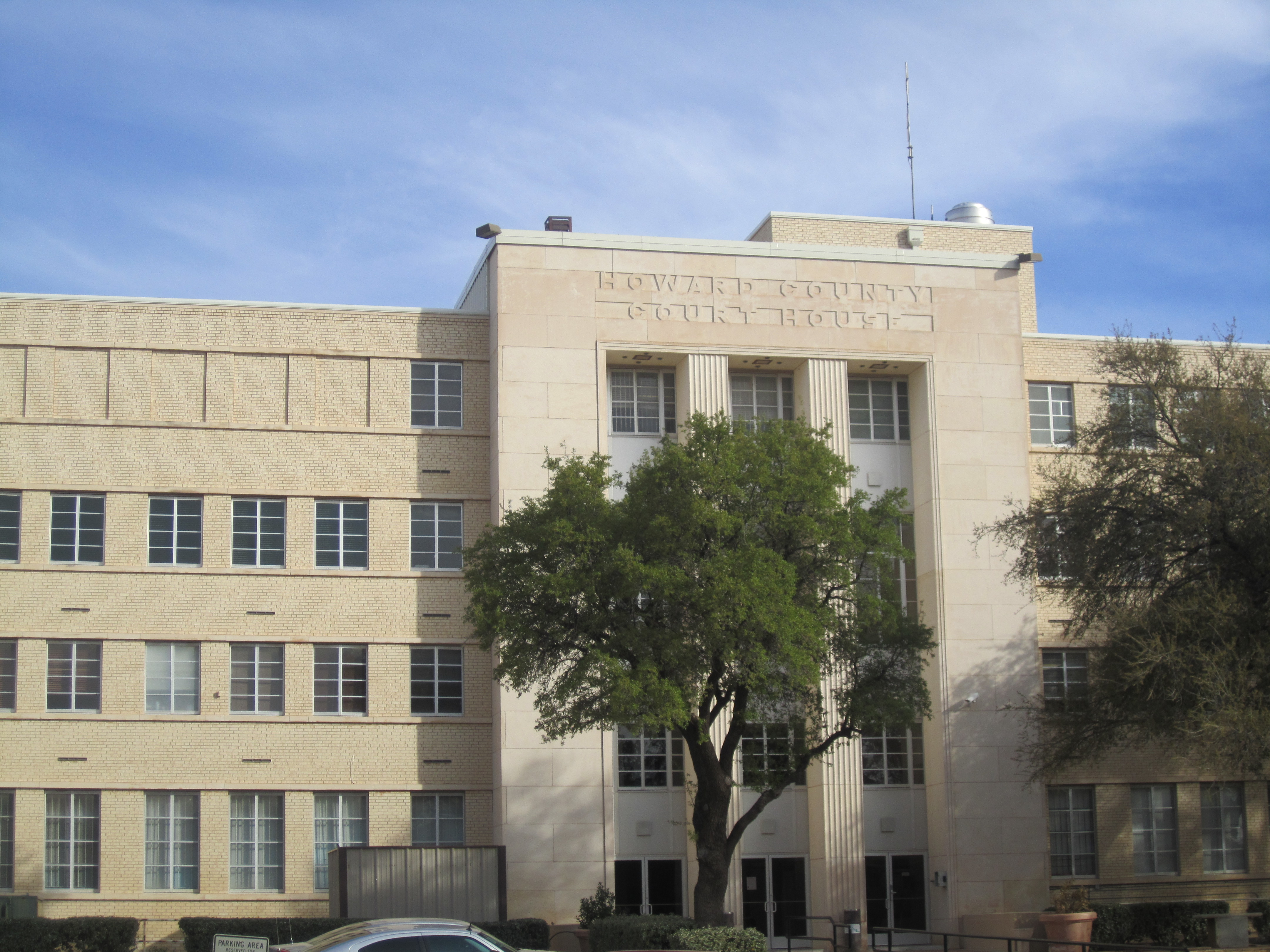 I took photo with Canon camera in Big Spring, TX.